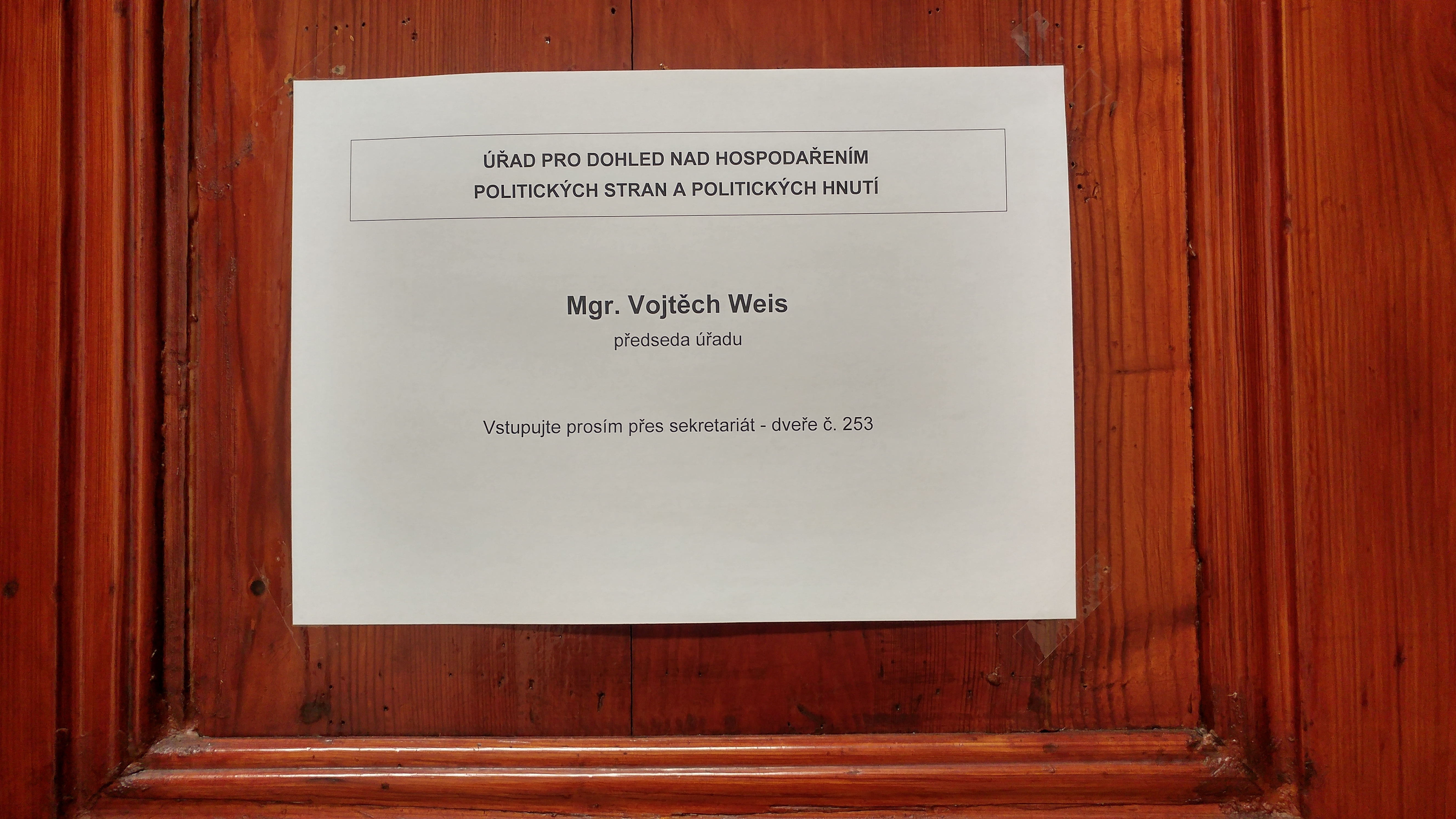 Office for Economic Supervision of Political Parties and Political Movements, Brno, Czech Republic